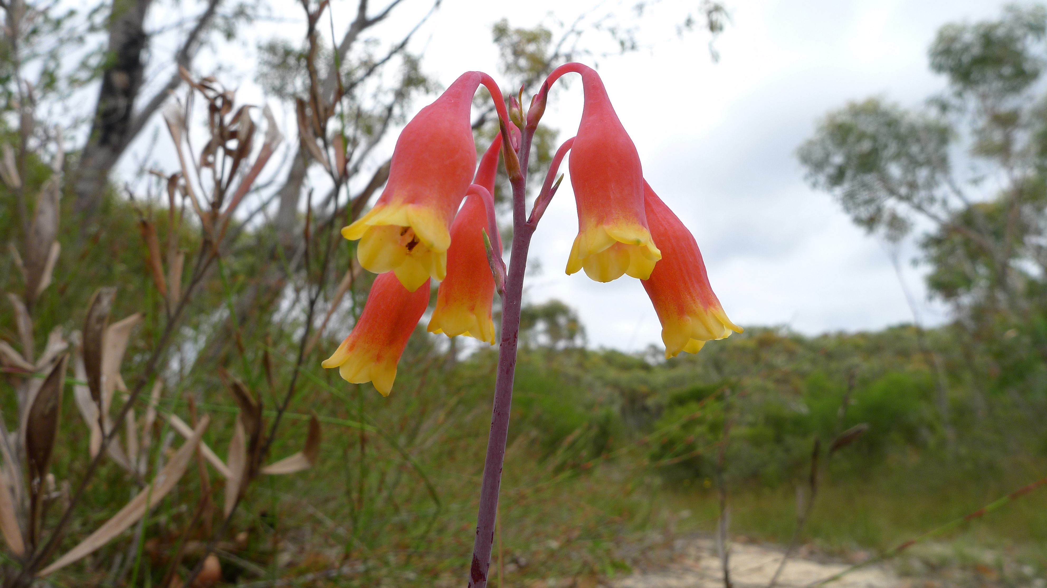 Christmas Bells, Blandfordia nobilis. Royal National Park, NSW Australia, December 2011.